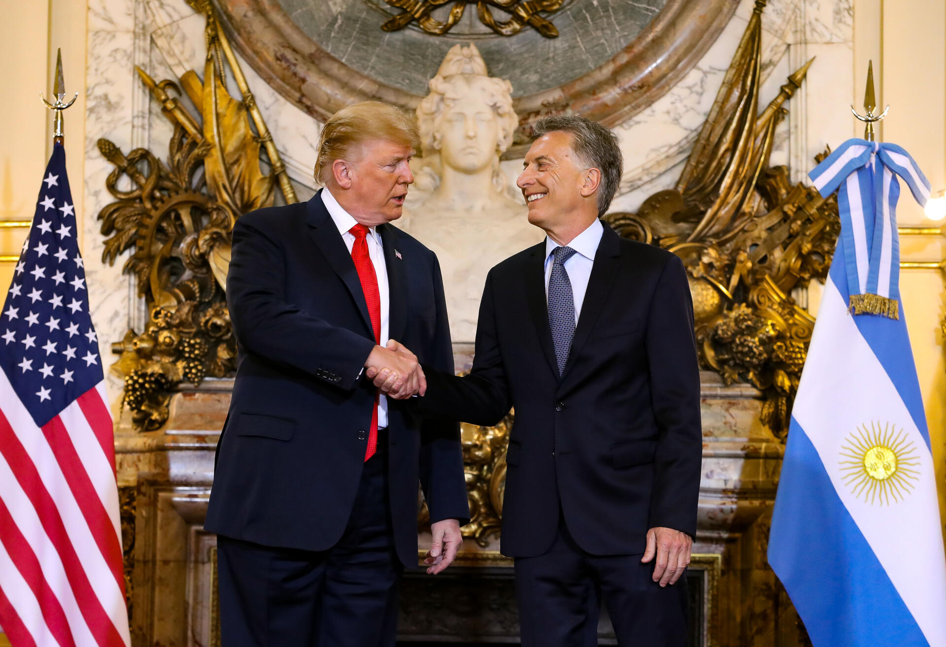 Donald Trump and Maurico Macri shaking hands during the G20 summit in Buenos Aires.